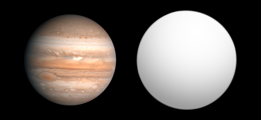 Comparison of best-fit size of the exoplanet XO-5 b with the Solar System planet Jupiter, as reported in the Extrasolar Planets Encyclopaedia[1] as of 2010-10-03. ↑ Extrasolar Planets Encyclopaedia (2010-09-30). Retrieved on 2010-10-03.